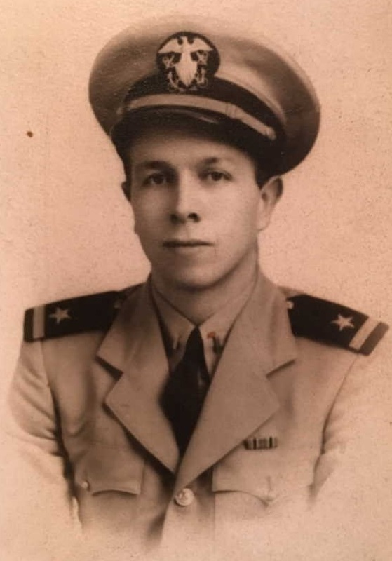 Edwin Corning Jr. (1919-1964) as a WW II US Navy officer in 1942